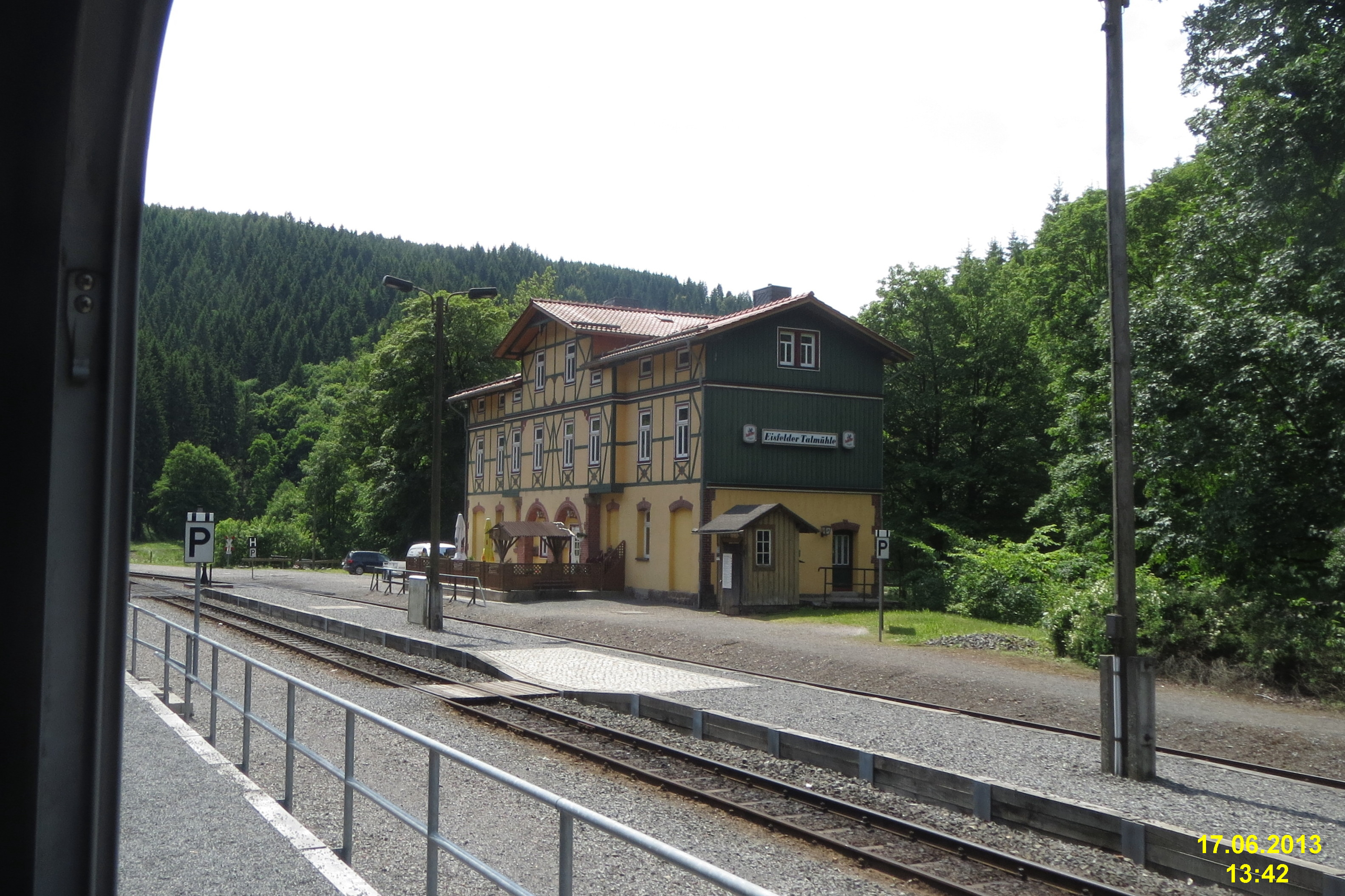 Where we joined and changed to the Harzquerbahn to head north to Wernigerode. A huge station serving the junction, but pretty isolated. See